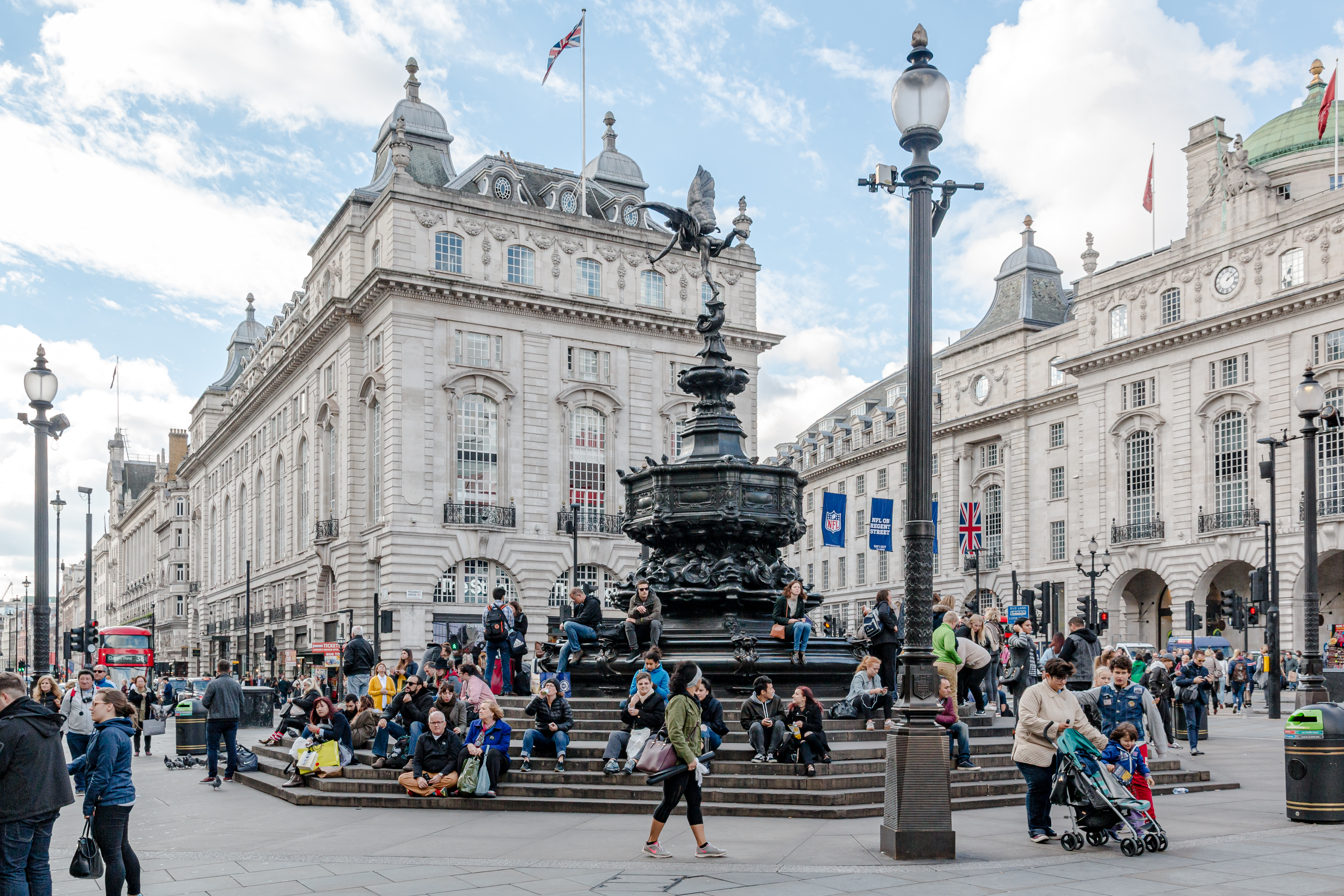 Shaftesbury Memorial Fountain, Piccadilly Circus, London, England, United Kingdom Sculpture TitleShaftesbury Memorial FountainArtistAlfred GilbertDate1892